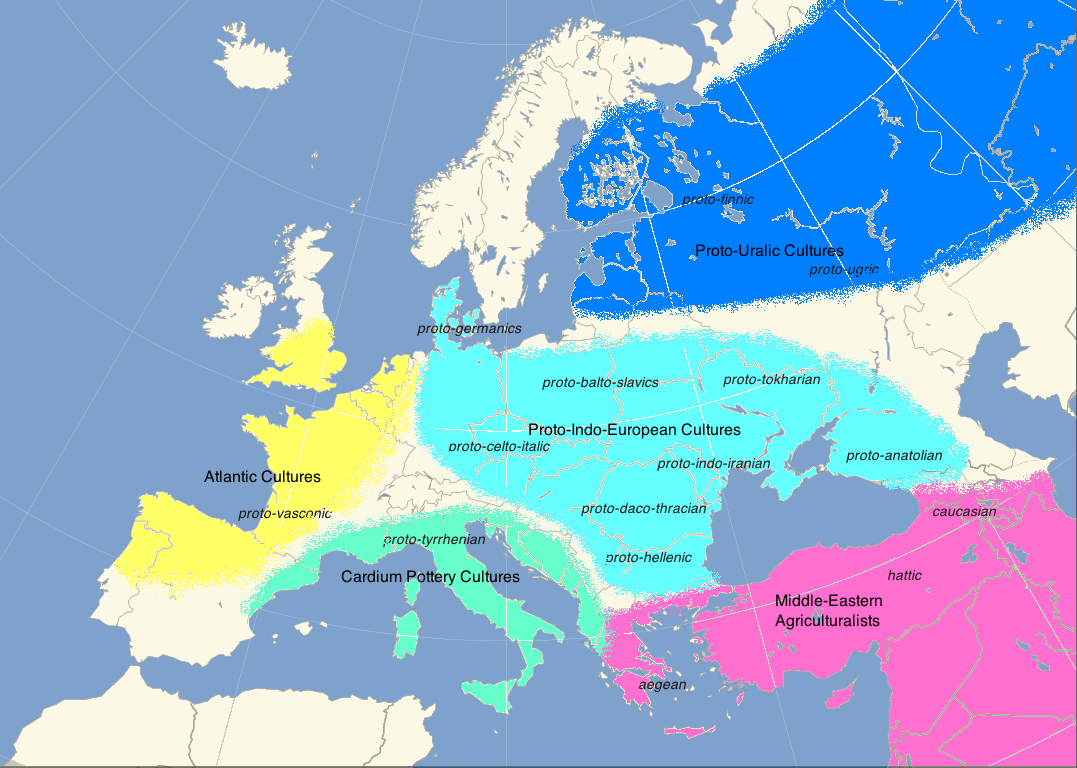 Lingua Franca Nova: A map of a possible distribution of cultures and languages in neolithic Europe